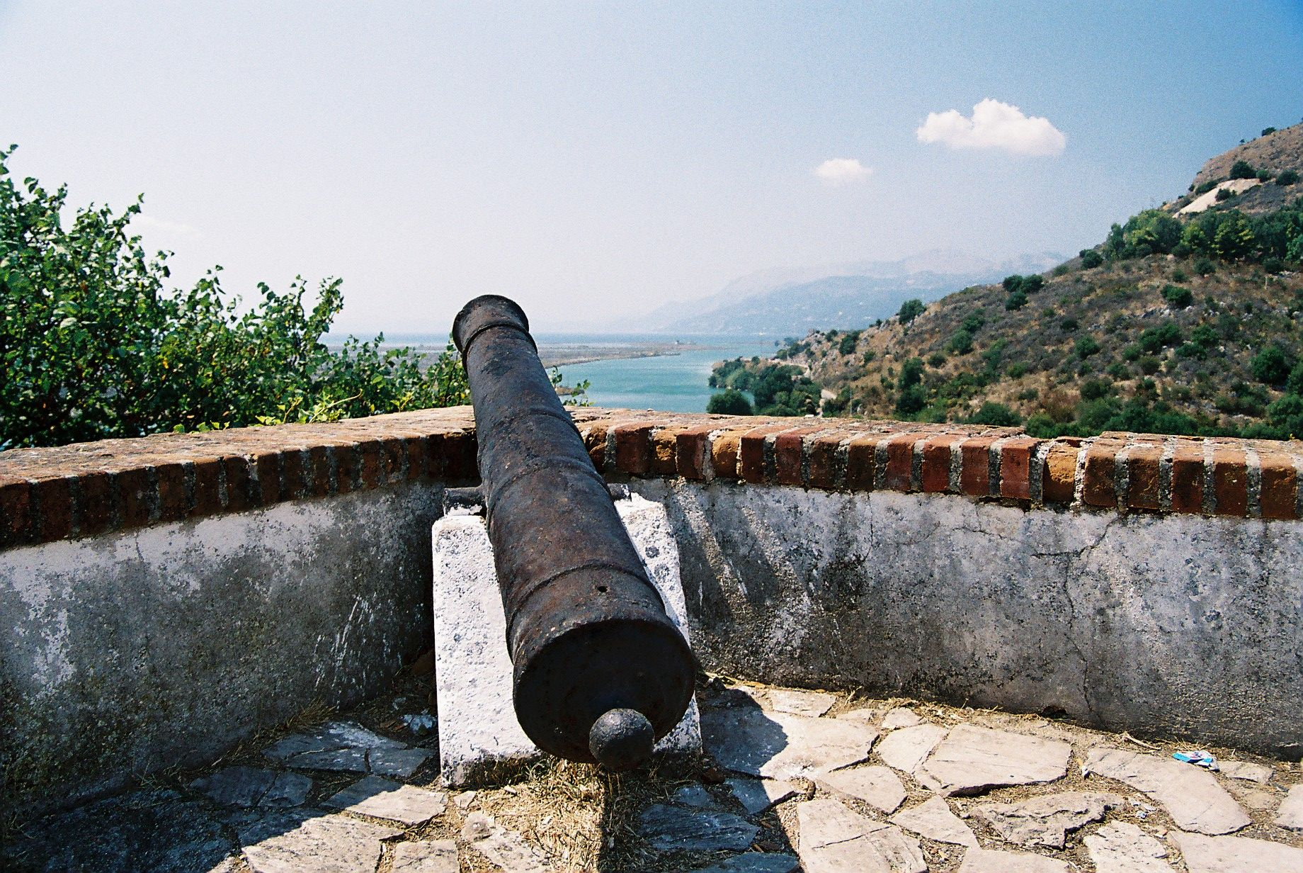 Butrint: View from the Venetian castle along Vivari Channel towards Ali Pasha's fort and Korfu in the distance